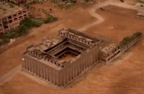 Aerial photograph of Penitenciaría Federal de Sona